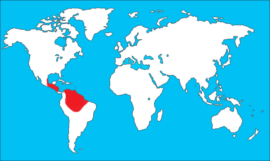 Range map for (Ara macao) Scarlet Macaw.